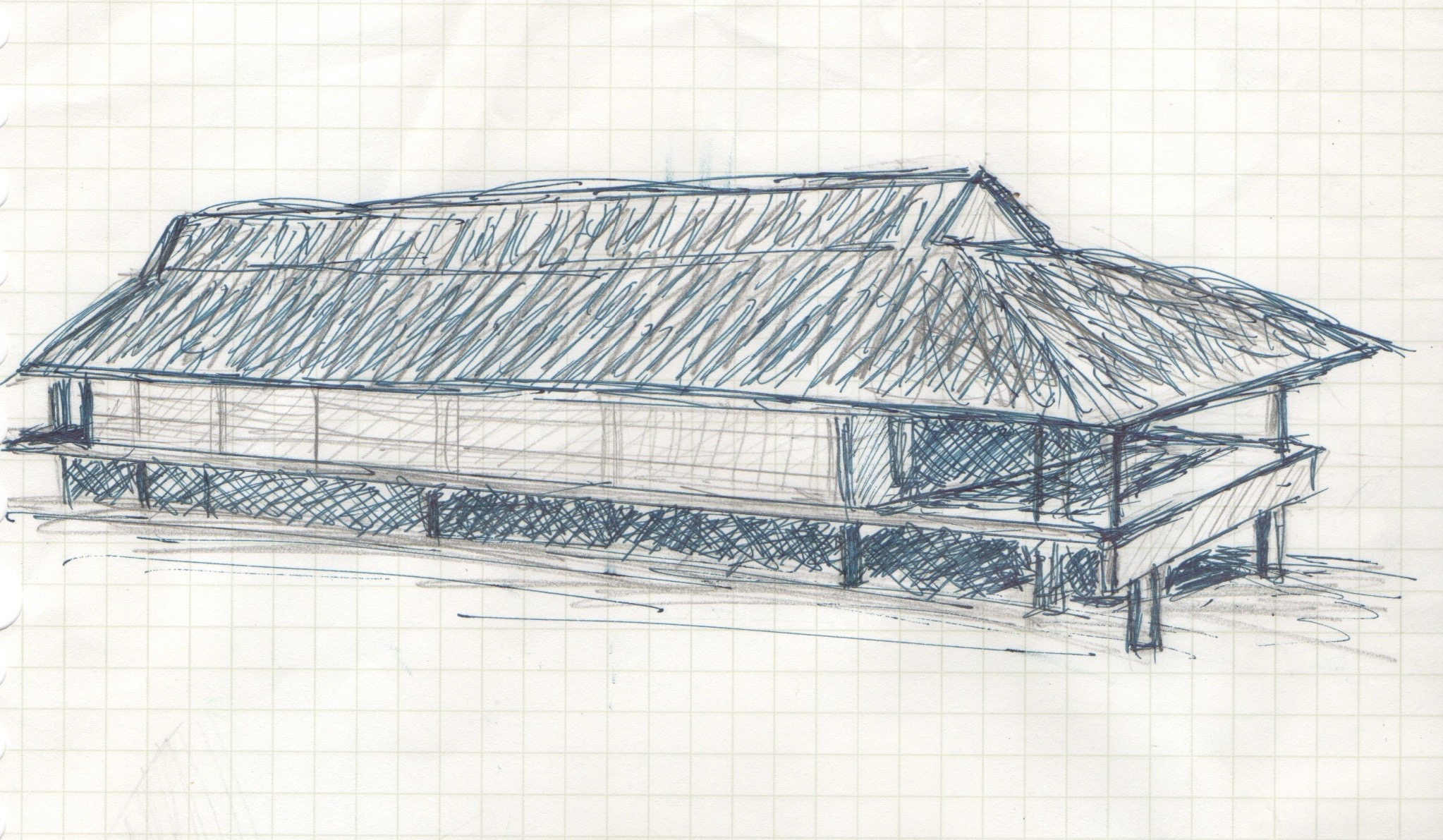 戈族的長屋